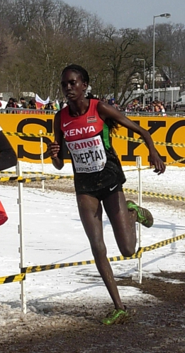 Irene Chepet Cheptai competing at the 2013 IAAF World Cross Country Championships